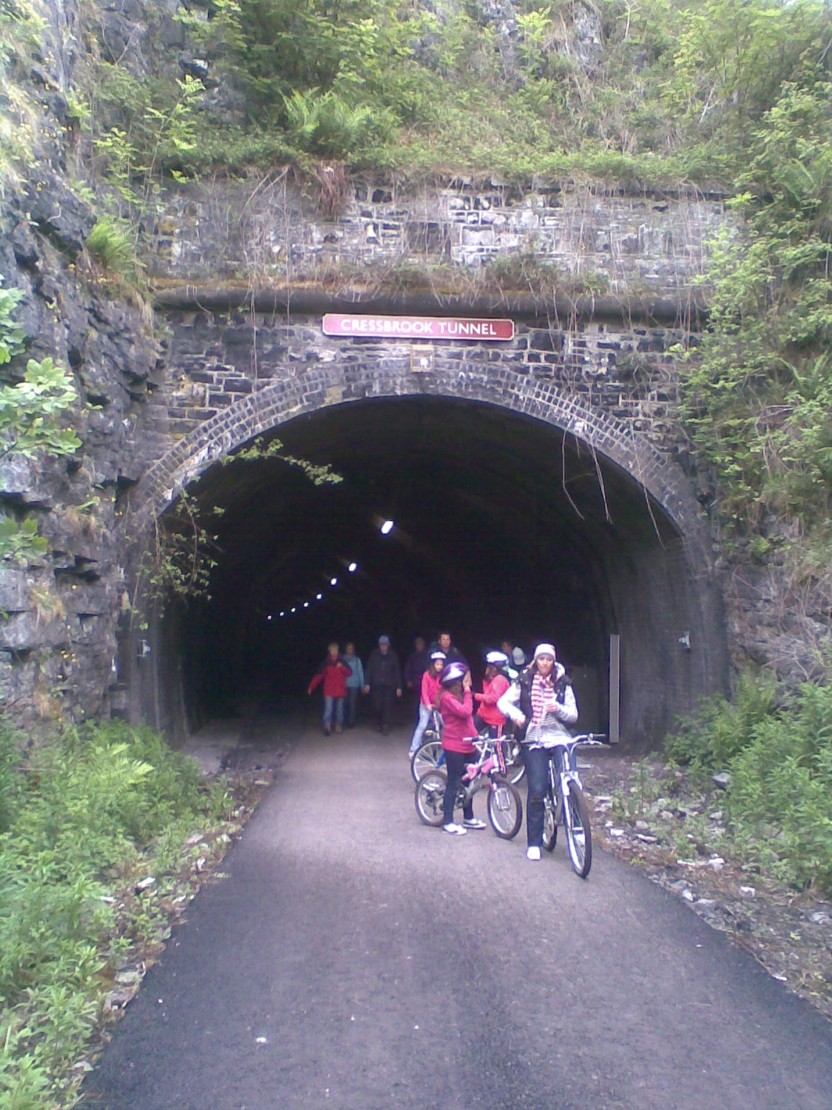 Cressbrook Tunnel on the Monsal Trail